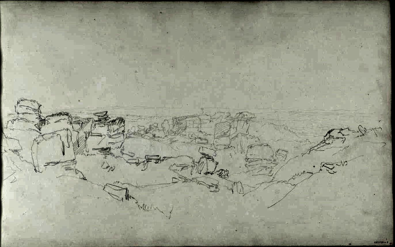 1816 sketch by JMW Turner, titled "Brimham Rocks Above Nidderdale." View looking south from Rocks House (now National trust visitor centre).